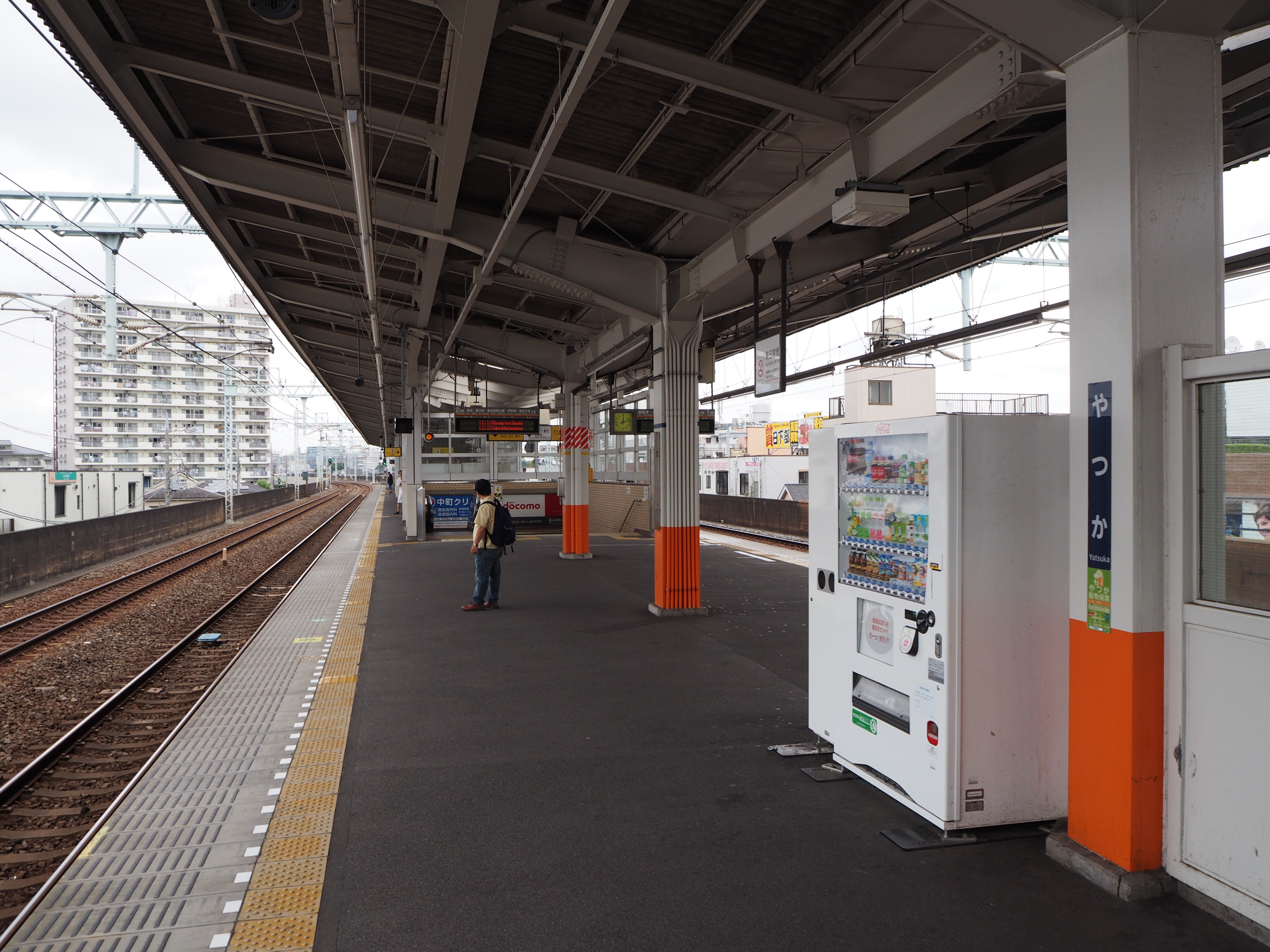 Platforms of Yatsuka Station